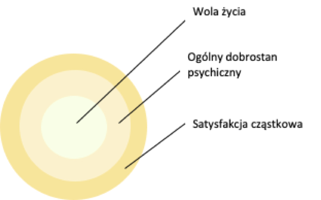 Onion theory of hap pines